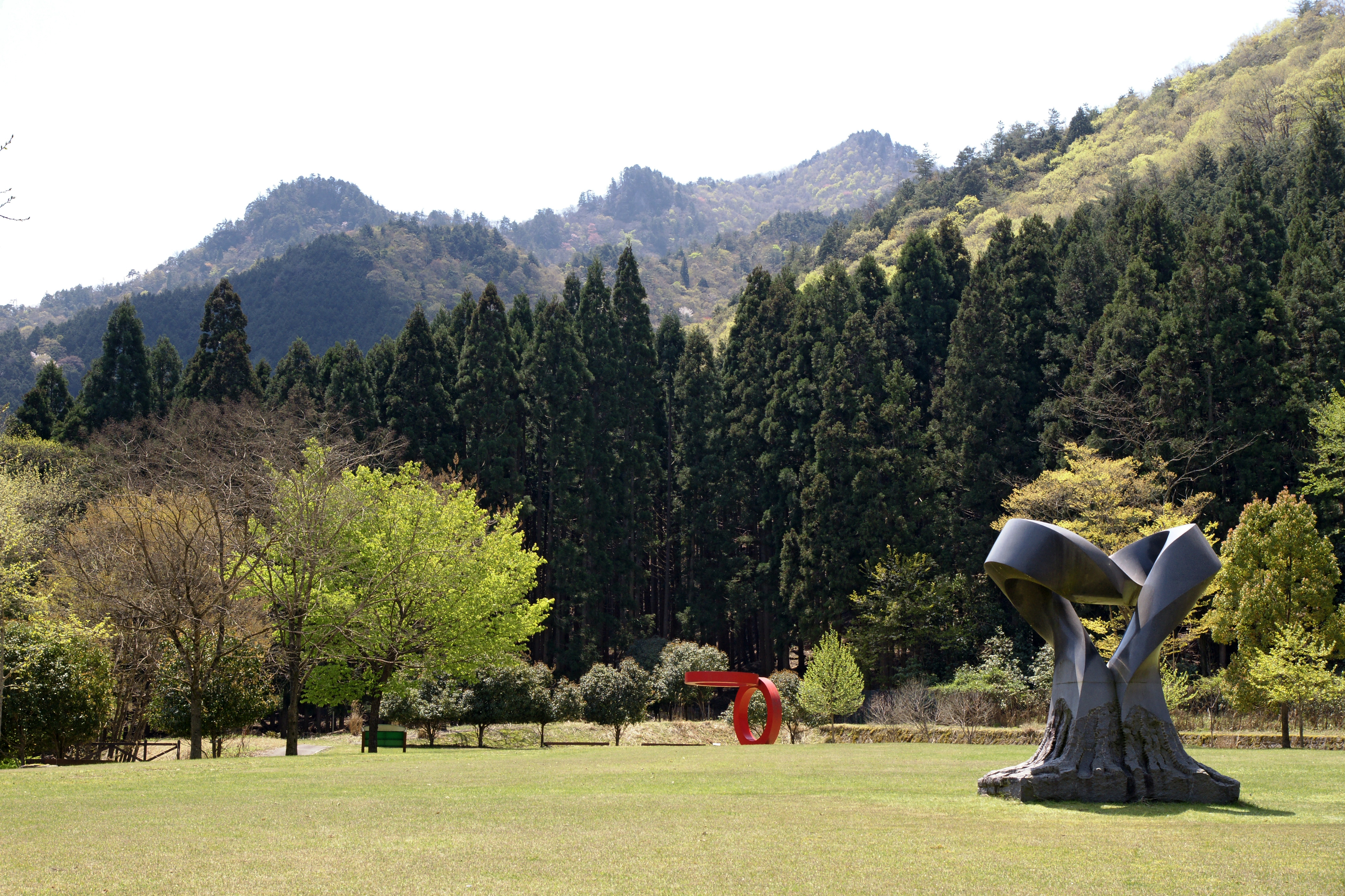 Asago Art Village in Asago, Hyogo prefecture, Japan.